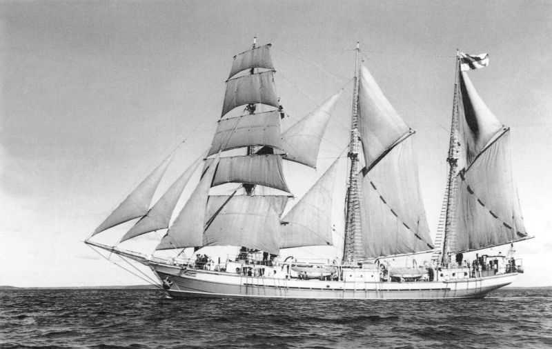 Schooner Meridian during sea trial in September 1948.